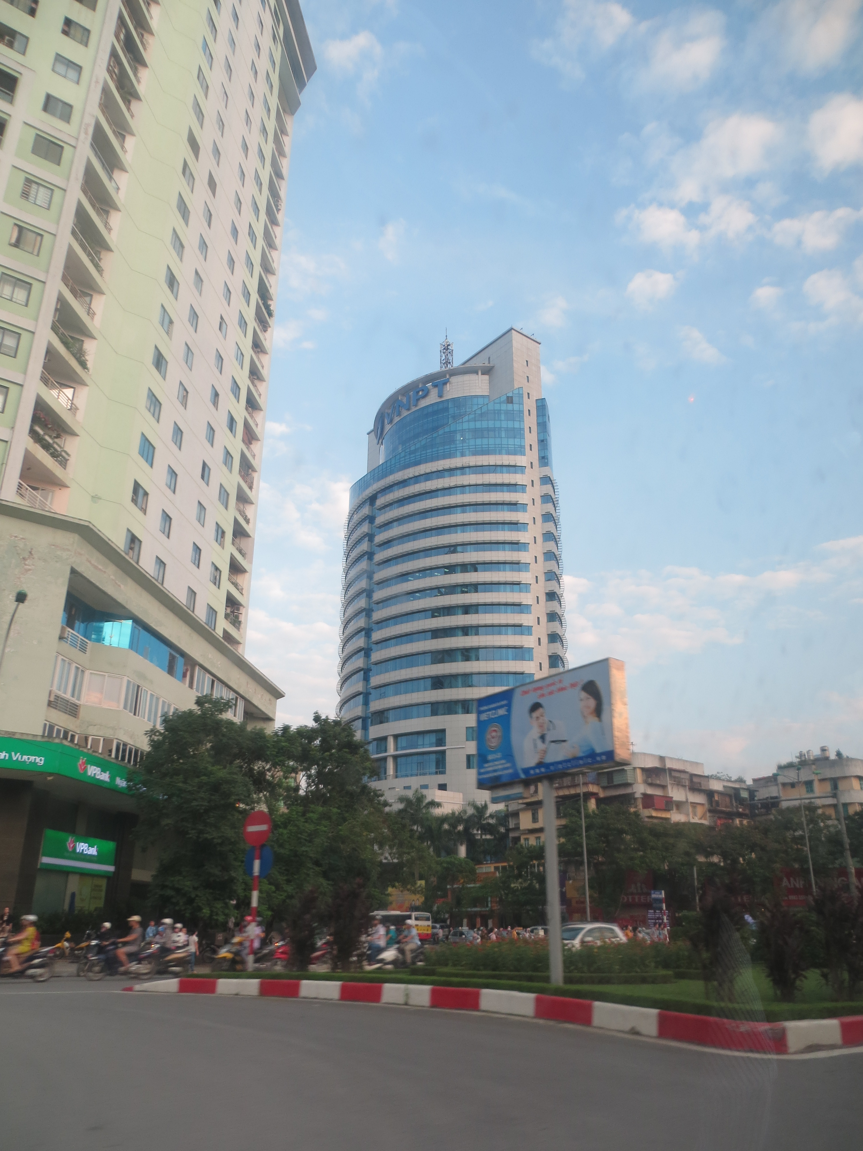 Nguyễn Chí Thanh Street, Hanoi, Vietnam.